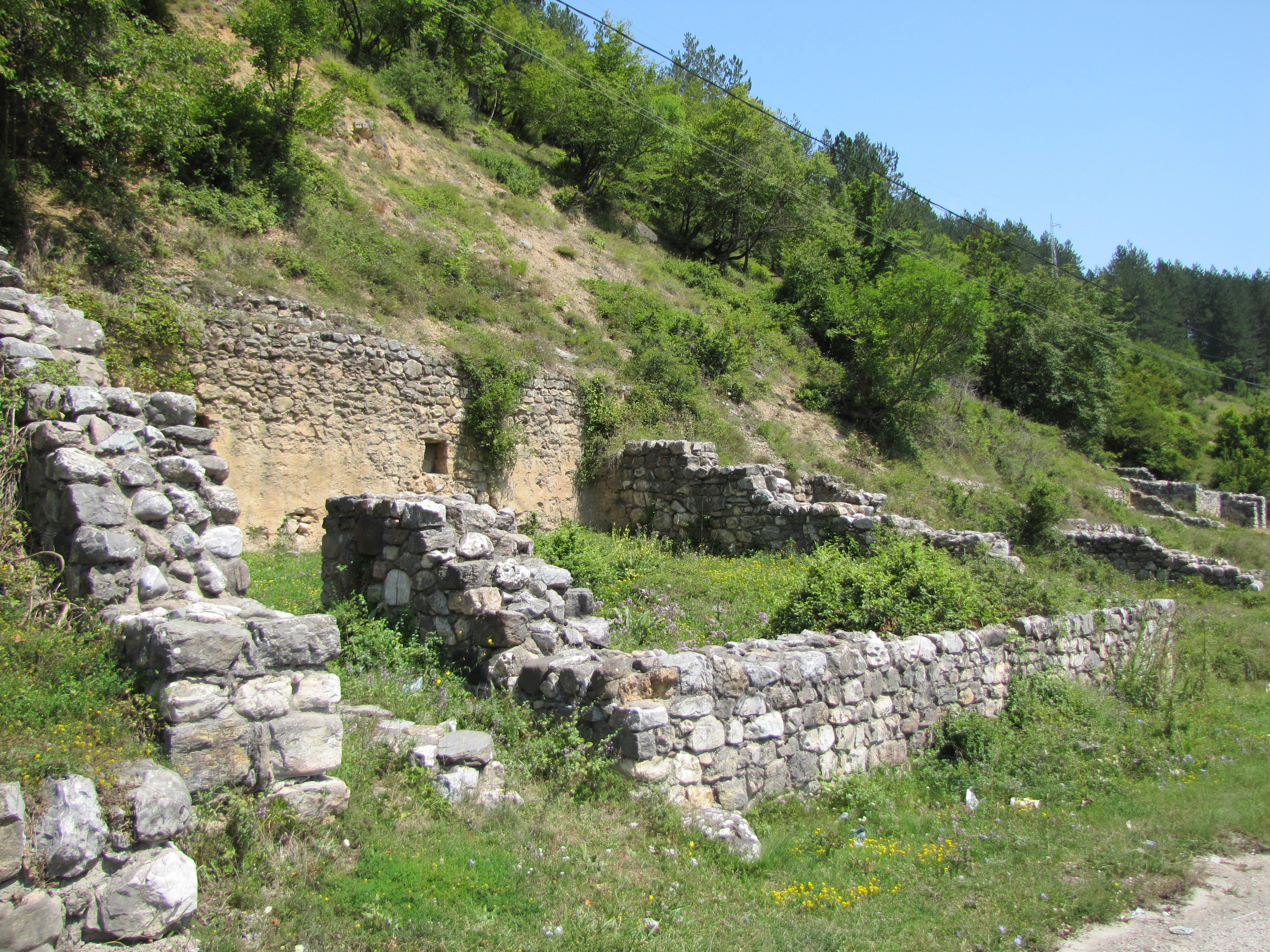 Medieval settlement Ras, near Novi Pazar (SW Serbia).